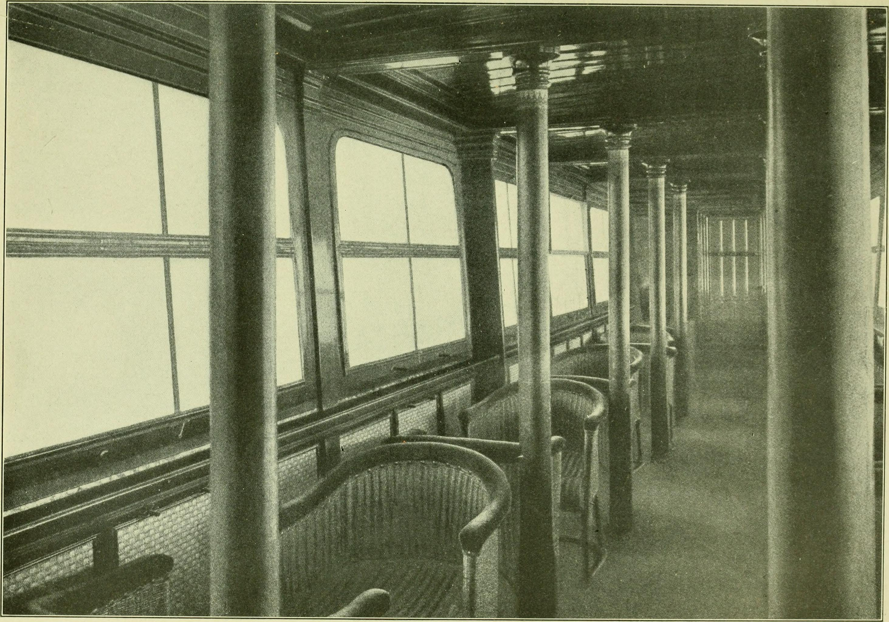 Cabin of the Zeppelin airship 'Hansa' Title: Germany's fighting machine; her army, her navy, her air-ships, and why she arrayed them against the allied powers of Europe Year: 1914 (1910s) Authors: Henderson, Ernest F. (Ernest Flagg), 1861-1928 Subjects: Germany. Heer Germany. Kriegsmarine World War, 1914-1918 Publisher: Indianapolis, The Bobbs-Merrill company Text Appearing Before Image: ' Text Appearing After Image: THE ARINIY 49 phone. I should add to these, automobiles, motor-trucks,motorcycles and simple bicycles. It may not be generally known that as far back as1870 Germany attempted to make regular use of mili-tary balloons, and that two balloons and equipment werepurchased from an English aeronaut. Several ascentswere successfully made with a member of the generalstaff as passengers. Before Paris, however, it provedimpossible to obtain the gas for inflation, and the wholeballoon detachment was dissolved. Fourteen years later,in 1884, regular experiments regarding the taking ofobservations and the exchanging of signals were be-gun. Fifty thousand marks a year were set aside forthe purpose, and so satisfactory were the results that in1887 a regular balloon corps was organized with a ma-jor, a captain, three Heutenants and fifty non-commis-sioned officers and men. The discovery that the gascould be transported in steel cases in a greatly condensedform placed military ballooning on a much secur